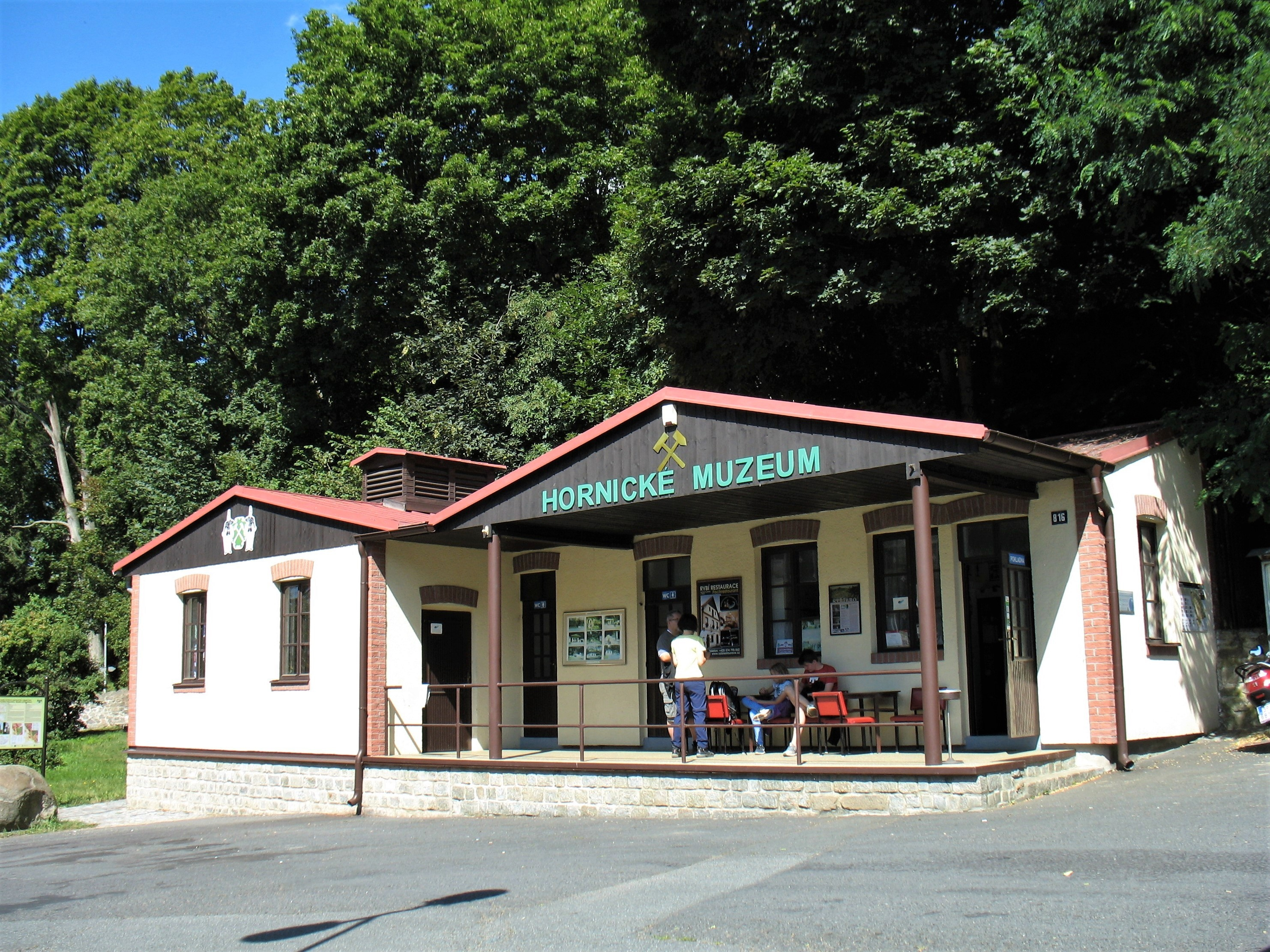 Mining museum in Planá, Tachov District, Czech Republic